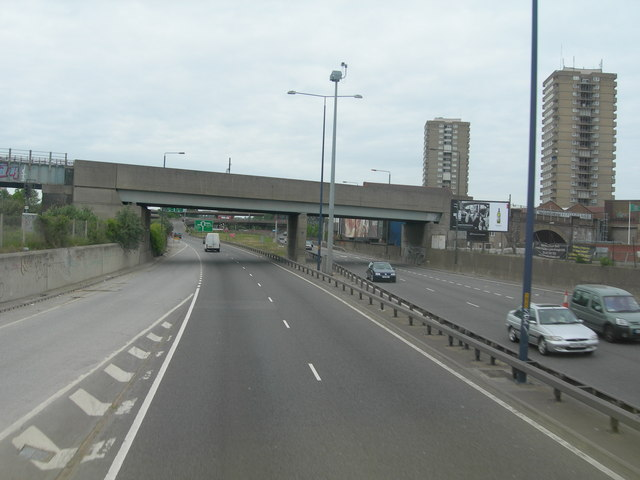 A3220 West Cross Route, White City, London, looking north